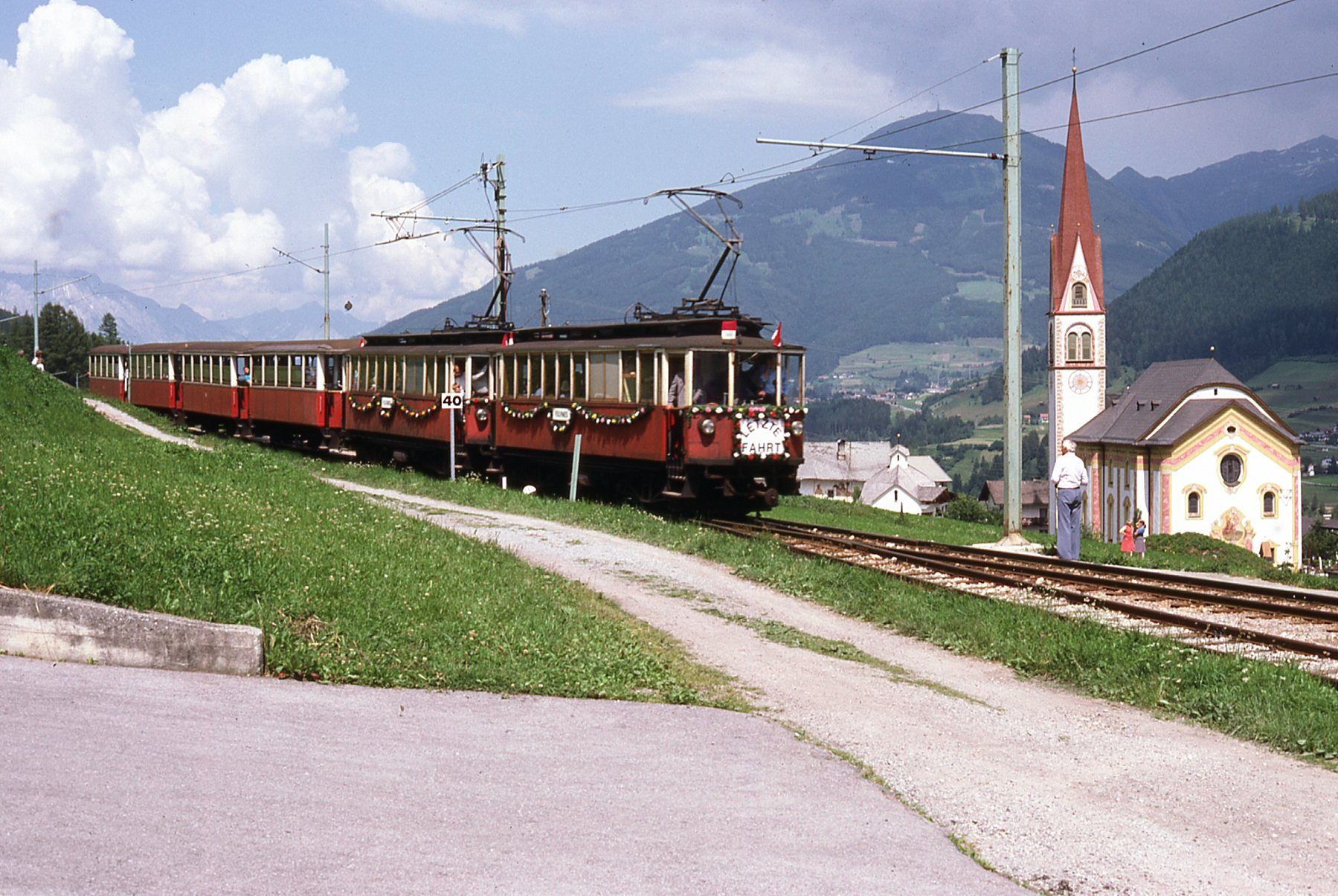 Stubaitalbahn, last train operated with AC current entering Telfes.